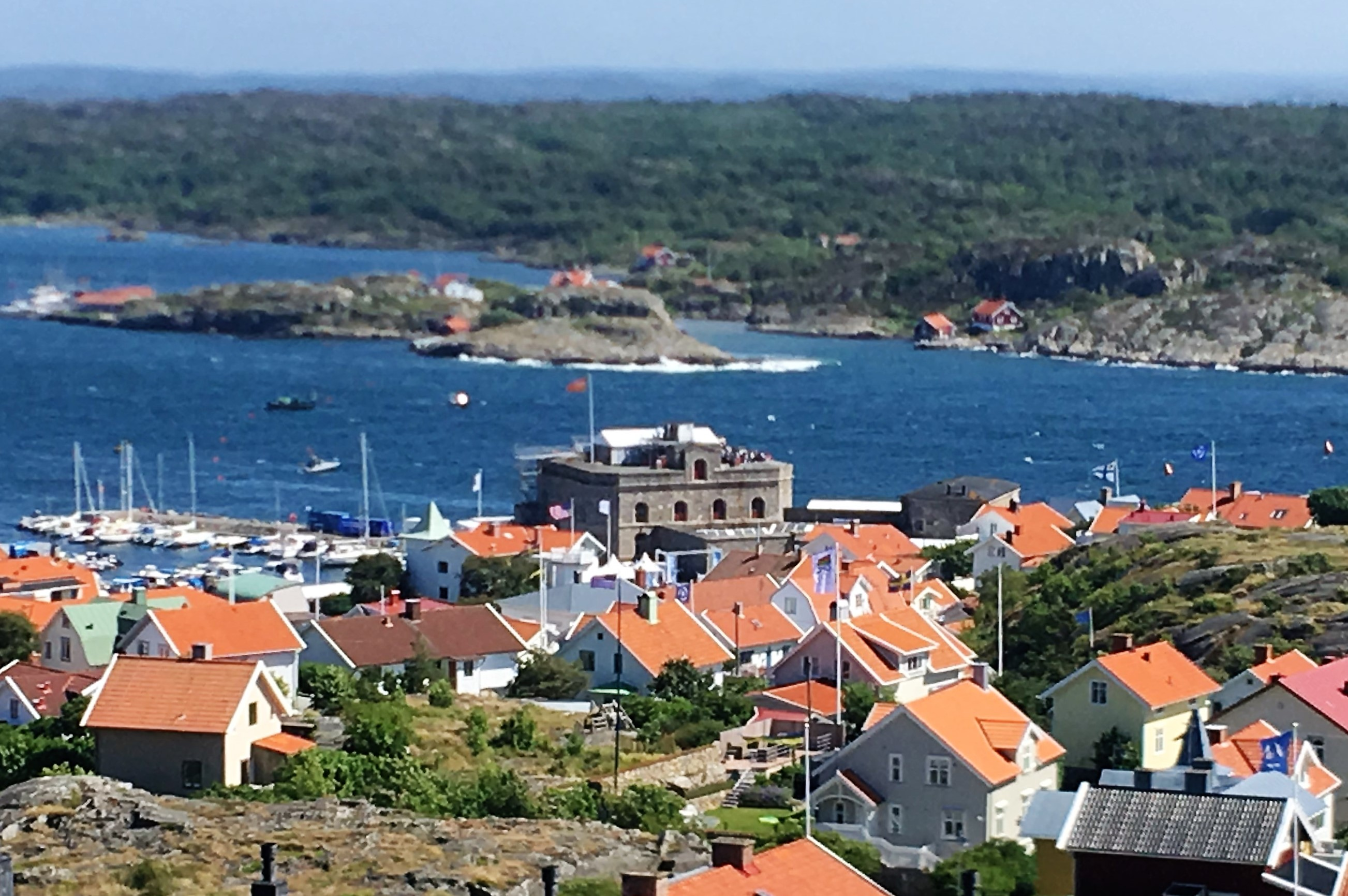 "Södra Strandverket" is a castel connected to the Carlsten Fortress, in Marstrand city, western Sweden